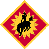 115th Field Artillery Brigade shoulder sleeve insignia